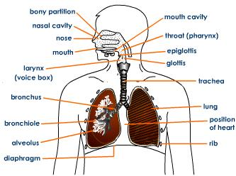 gaseous exchange in humans